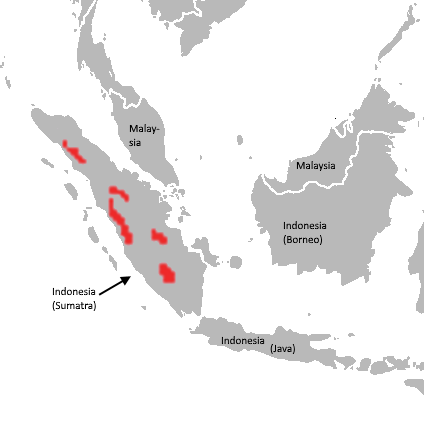 Range of Panthera tigris sumatrae, with national borders added